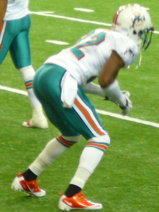 If used somewhere other than Wikipedia, Nelson, by name.